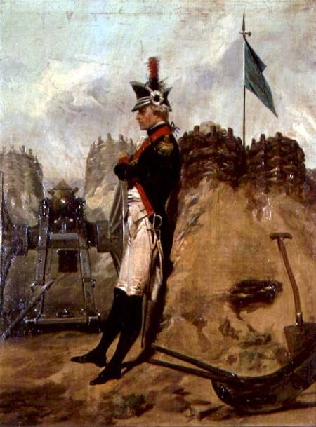 "Alexander Hamilton (1757-1804) in the Uniform of the New York Artillery" by Alonzo Chappel (1828-1887)